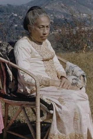 Thakin Kin Maung Lat. Private Secretary to King Thibaw, former courtier. Officer in the Indian Police, son of the ‘Duke and Duchess’ of Ngape and Mindat. Married to H.R.H Hteiksu Myatpayalat ( 2nd Daughter of King Thibaw and Queen Supayalat). Neither of these unions met with the royal parents' approval. She died at Kalimpong, India, 4th April 1956.